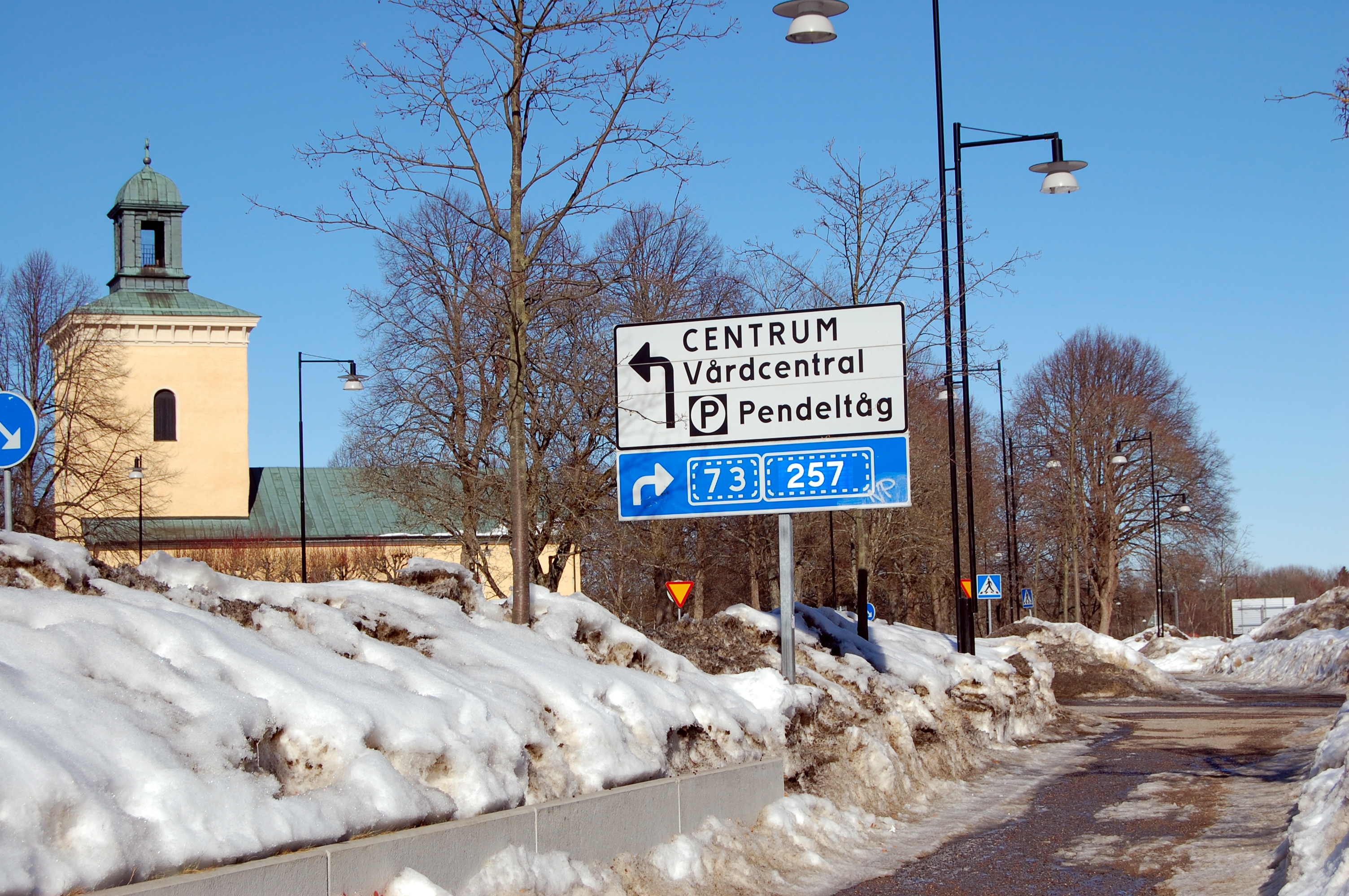 Västerhaninge